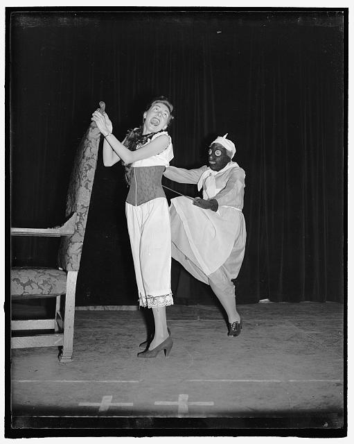 Women's Press Club skit instructs future first ladies on how to get along. Mammy Congress puts Scarlett O'Budgett into her corset before going to a 'lection party. ' Couldn't nobody tell what's inside and after you is married, Miss Scahlett, you can spread out any ways you like - fo' fo' yeahs' says Mammy to Scarlett. Scarlett is Carolyn Bell Hughes of The Washington Post while Mammy is played by Mary Hornaday, Christian Science Monitor.